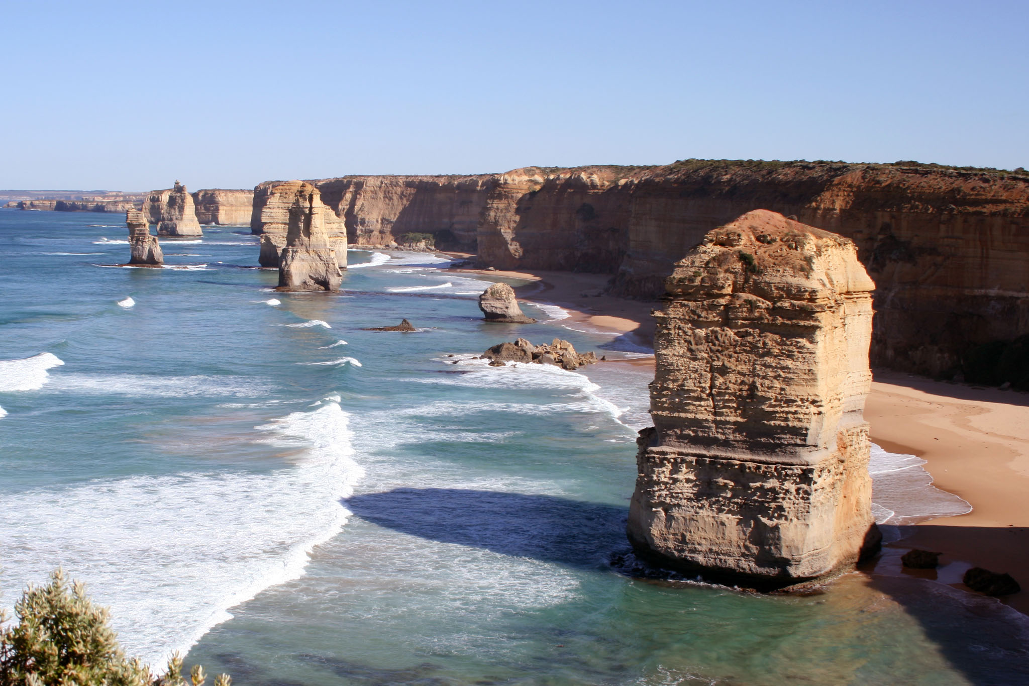 The Twelve Apostles, Great Ocean Road, Australia